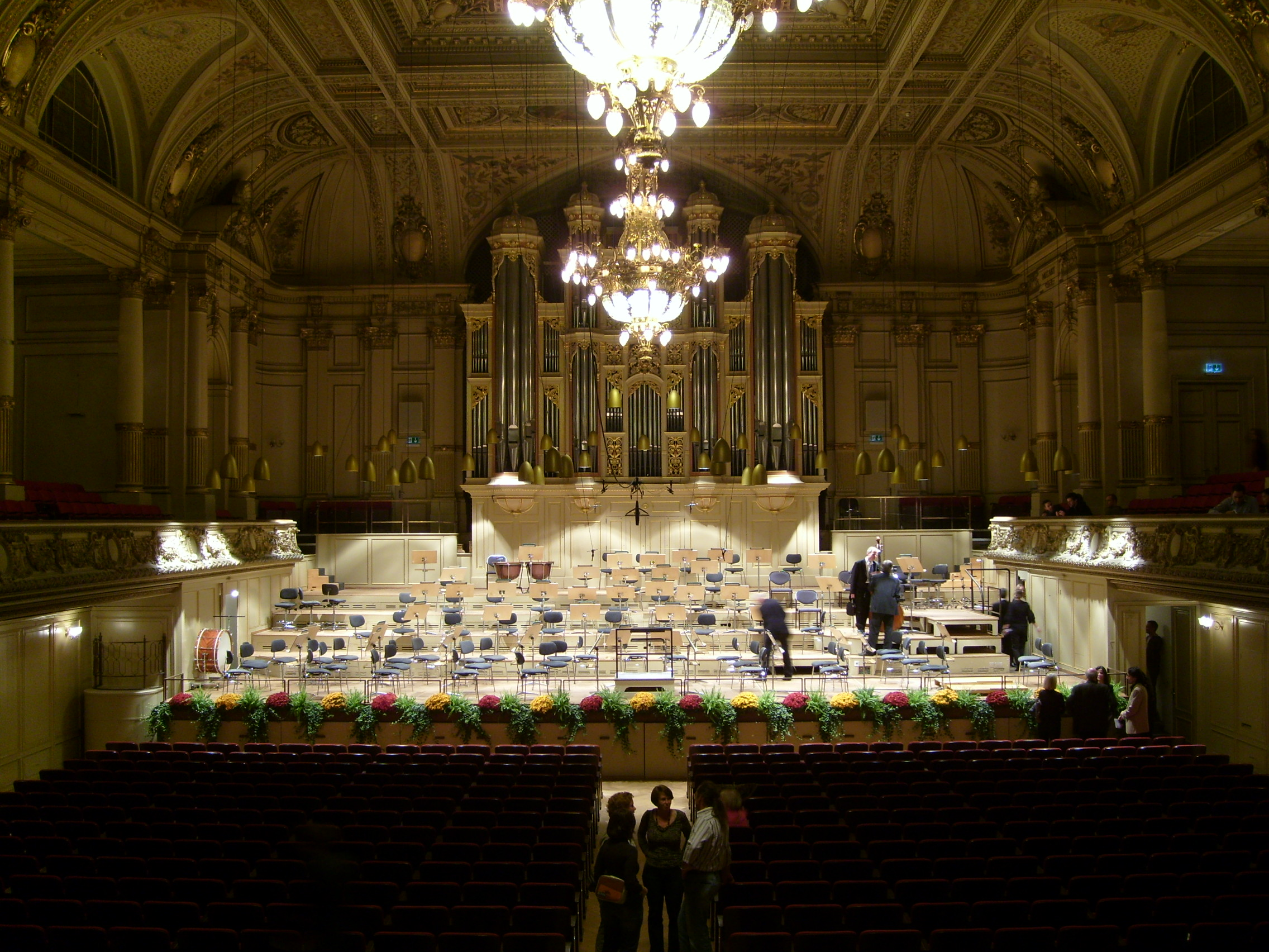 View of the great concert hall of the Tonhalle of Zürich